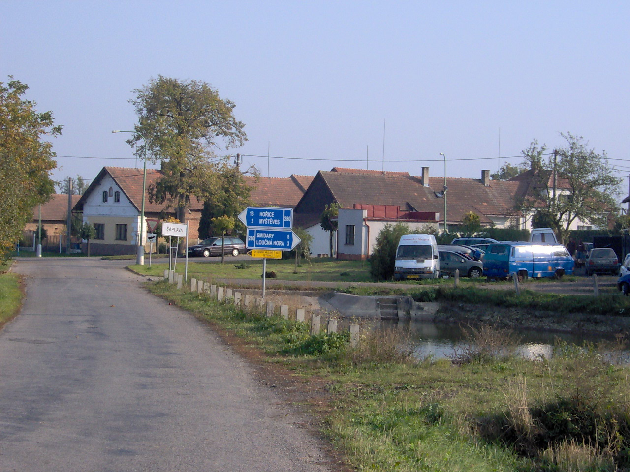 Šaplava (Hradec Králové District, Czechia) from the west